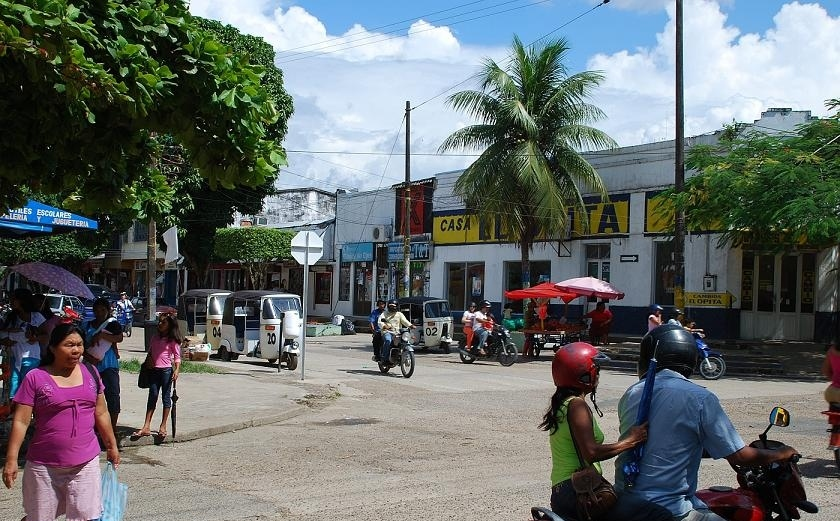 Leticia, frontier town in the Amazon triangle with Peru and Brazil